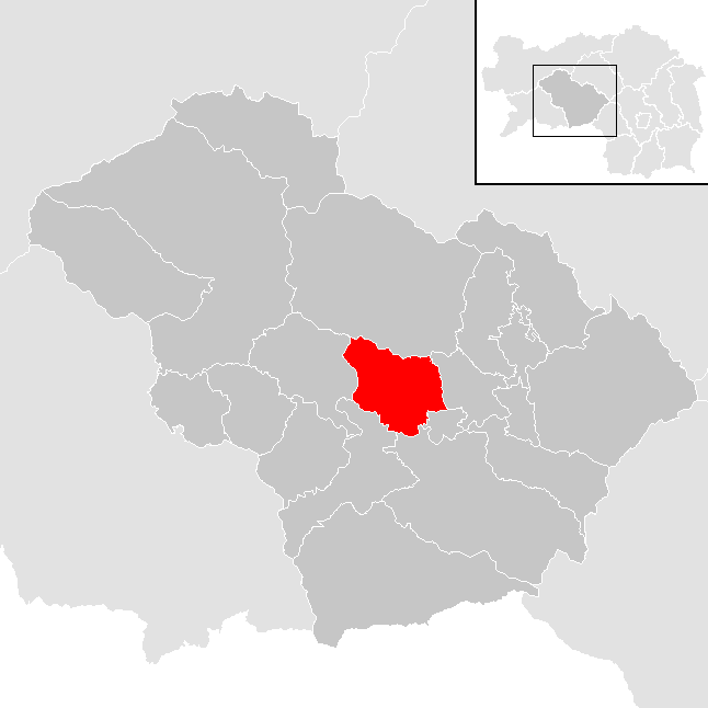 district Murtal in Styria, Austria